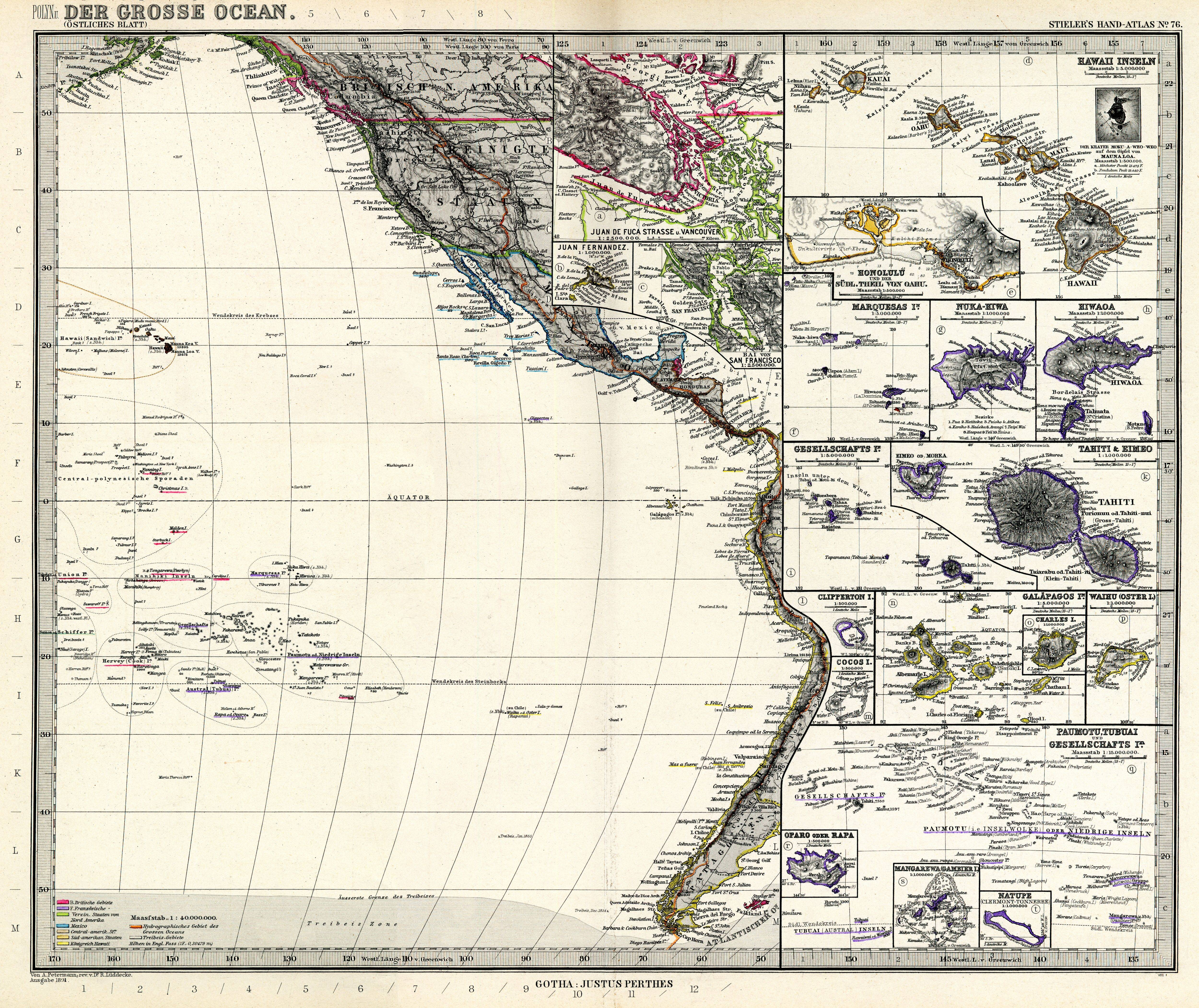 Polynesia and the Pacific Ocean (eastern sheet)